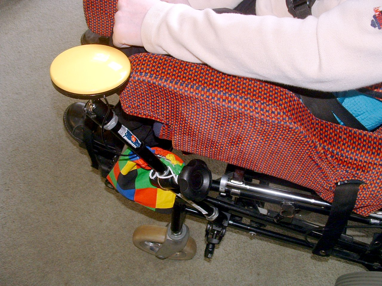 simple access device